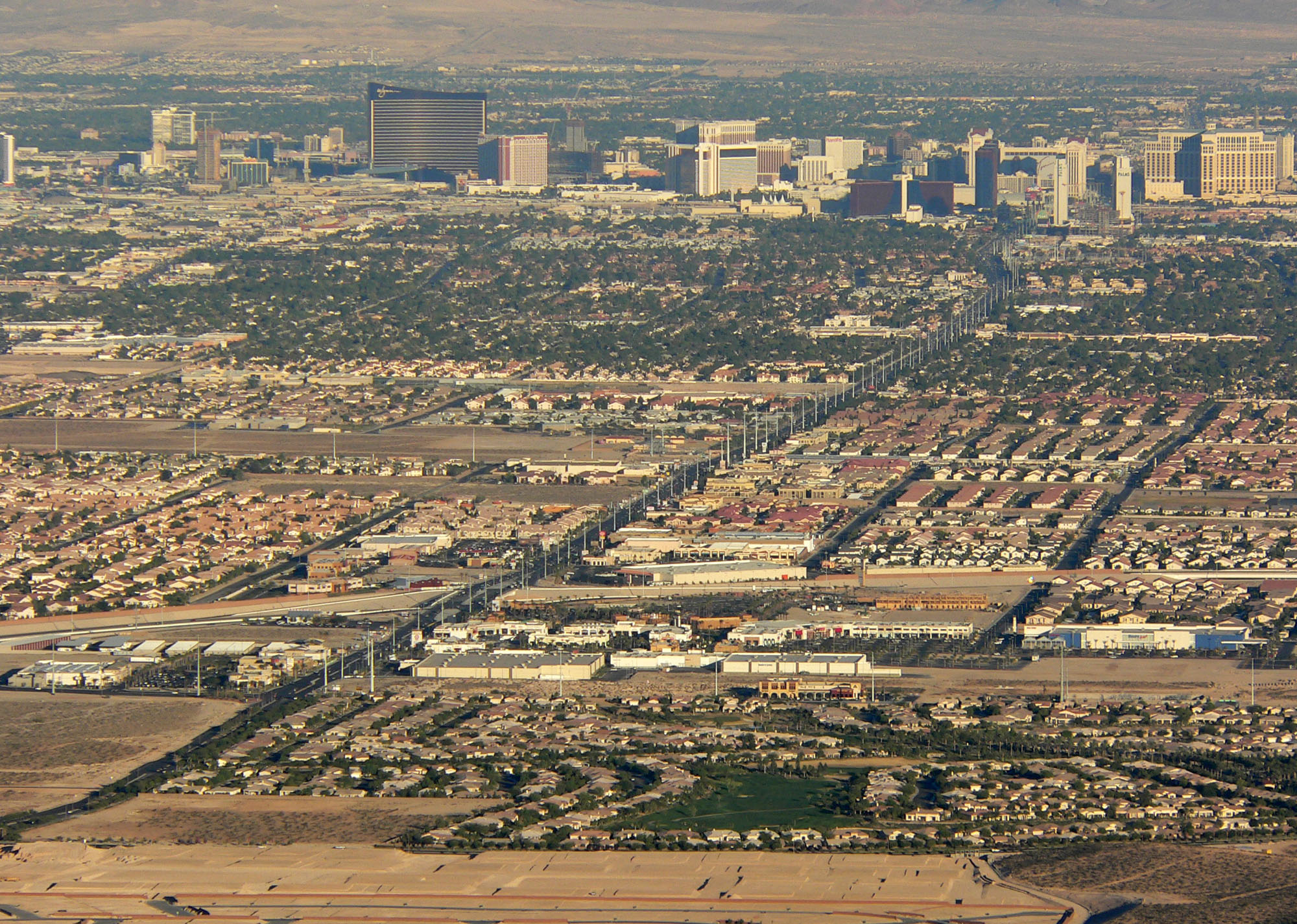 Sunset view of Flamingo Road from Blue Diamond Hill, Las Vegas, Nevada